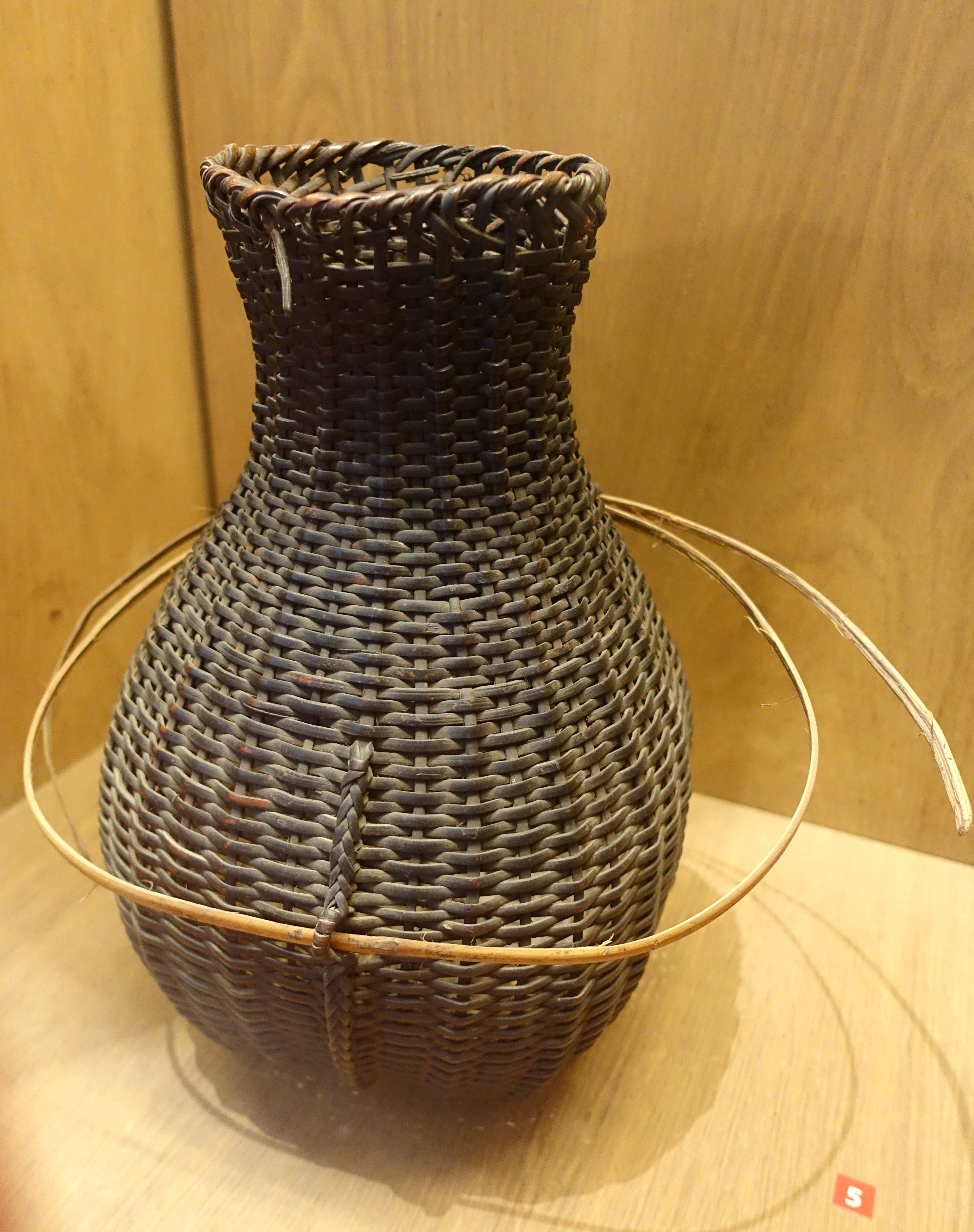 Exhibit in the Vietnam Museum of Ethnology - Hanoi, Vietnam.